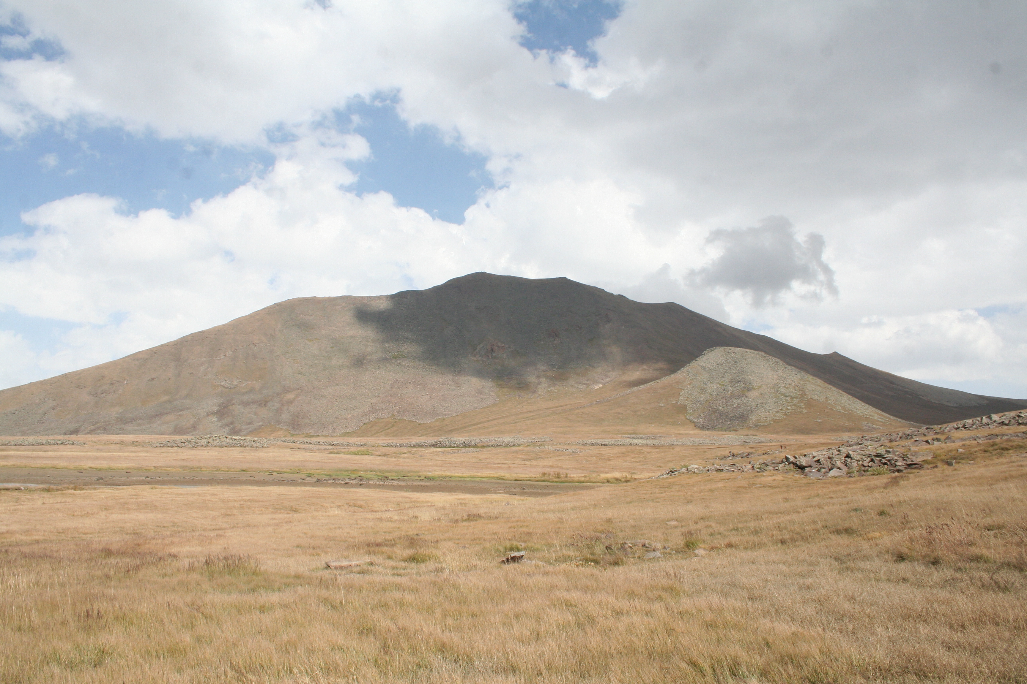 Mount Sepasar in the Highland of Syunik, Armenia